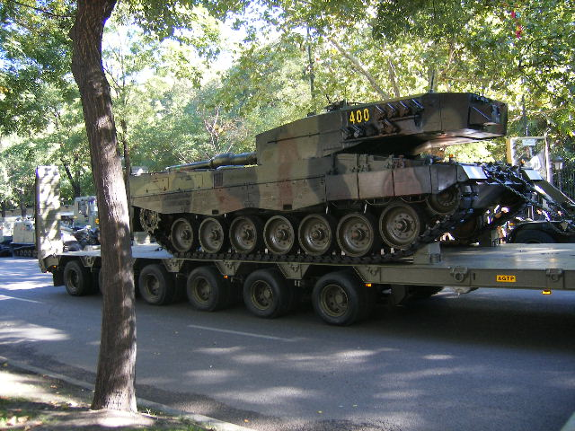 Spanish Leopard 2A4 in Madrid, 2006.